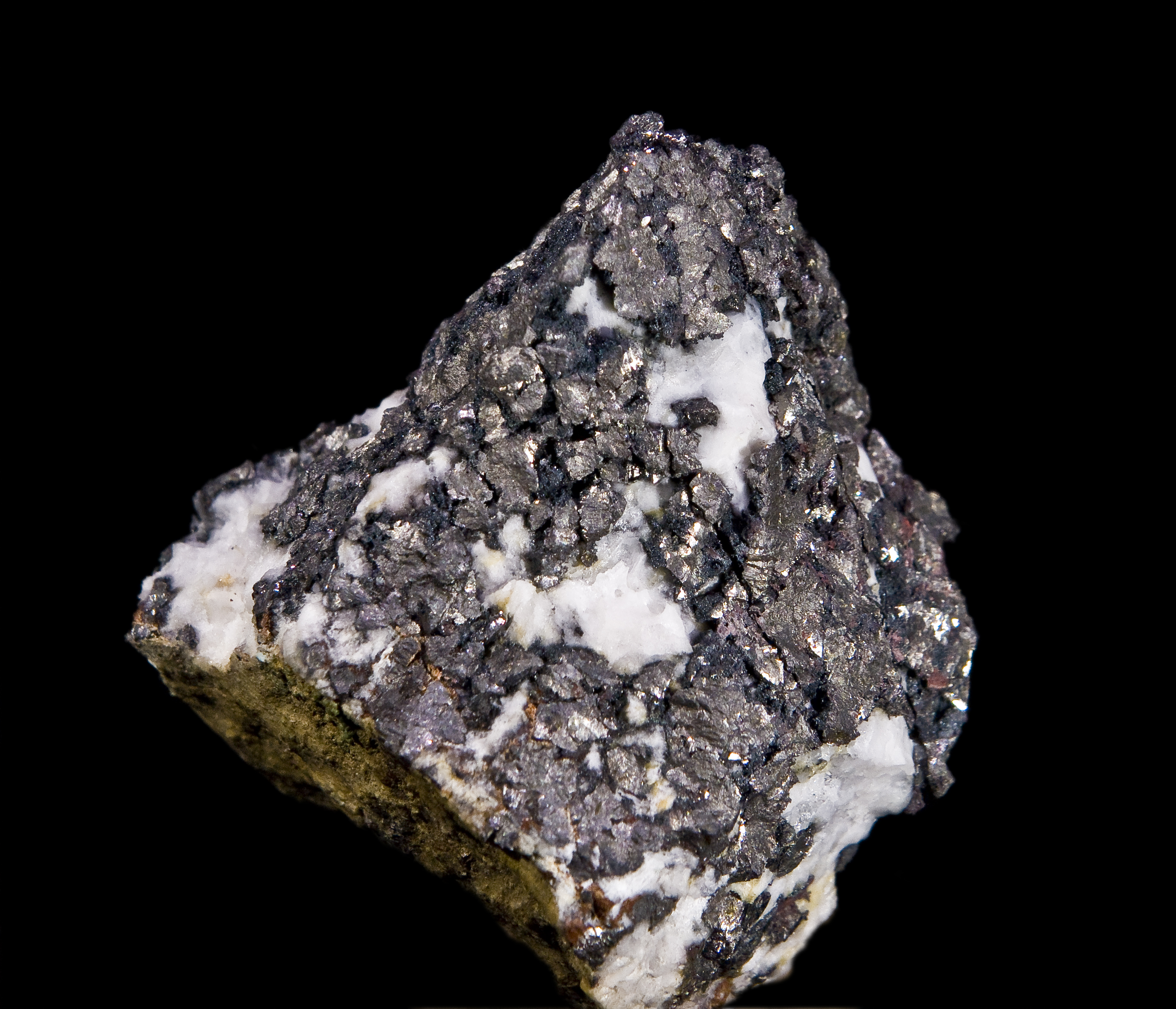 Gersdorffite [Var. Antimonian Gersdorffite - Corynite]- Greinig adit, Gaisberg, Olsa, Friesach, Friesach - Hüttenberg area,Carinthia, Austria (4x3.6cm)